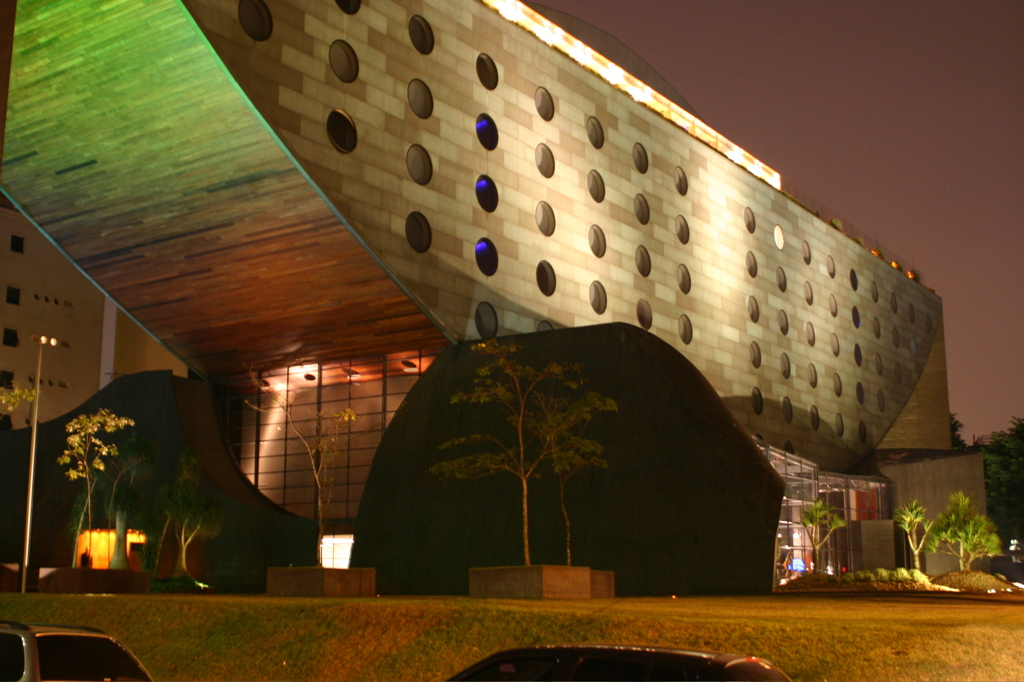 Hotel Unique, a posh design hotel done by the architect Ruy Ohtake.